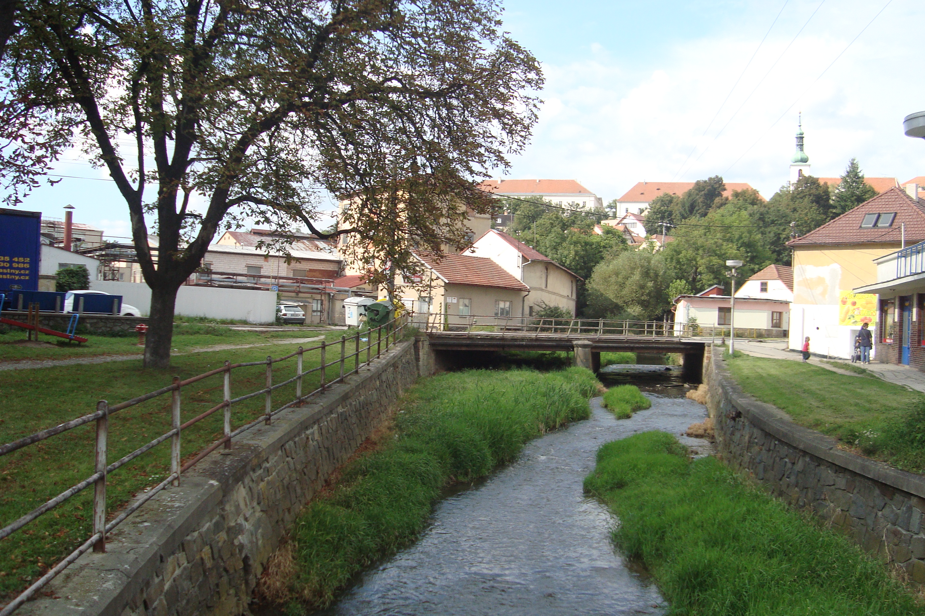 Bobrava in Rosice